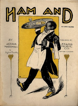 "Ham And !" 1908 ragtime sheet music cover